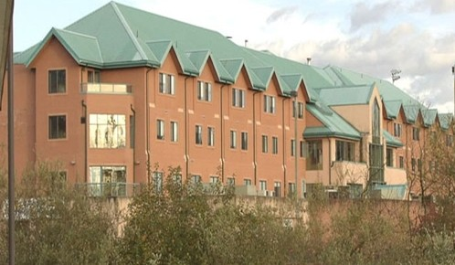 Trinity Western University's Northwest Building - School of Business